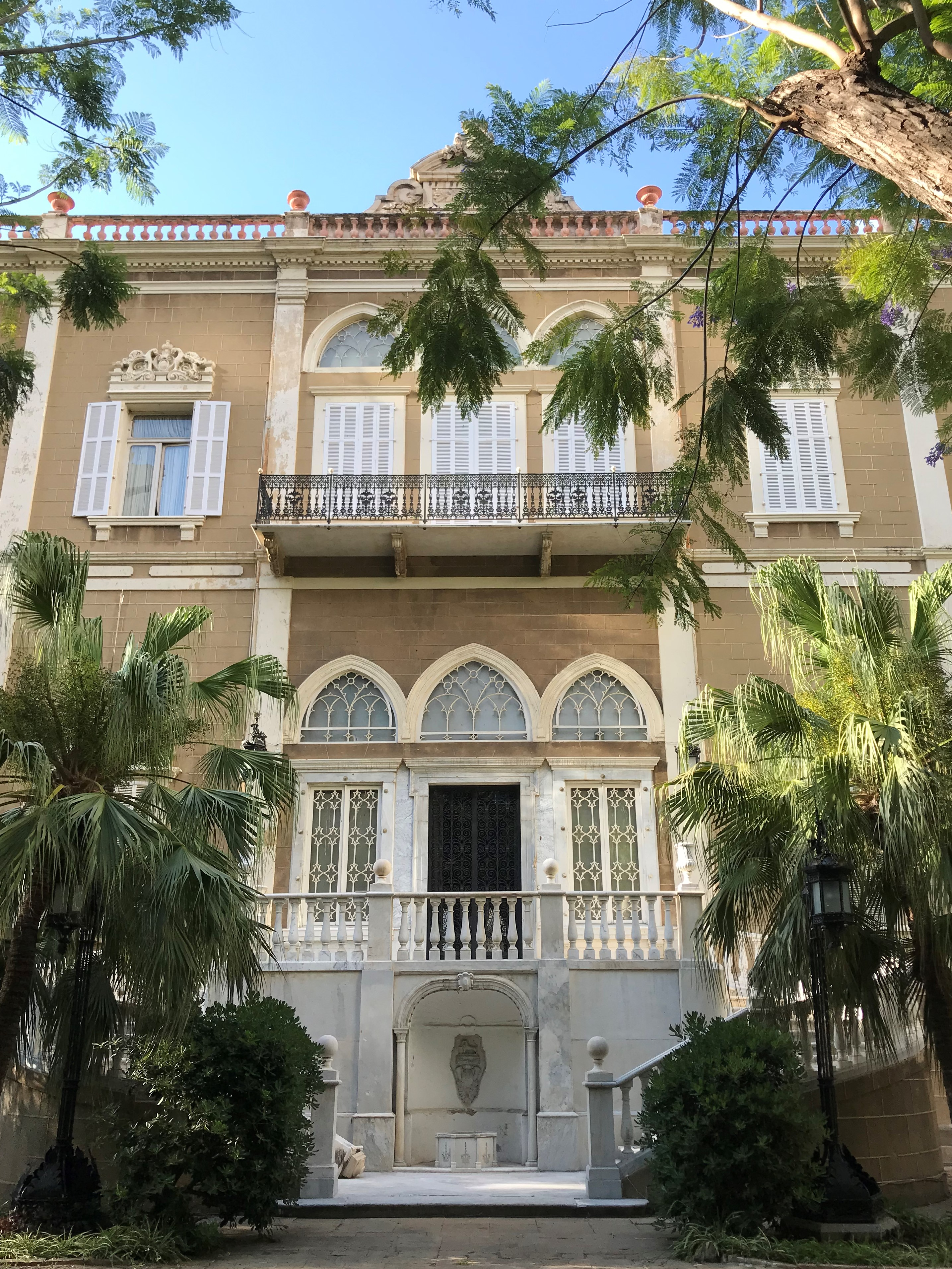 The Sursock Palace, a family residence constructed in 1860 by Moussa Sursock; located on Sursock Street in Achrafieh, Beirut.